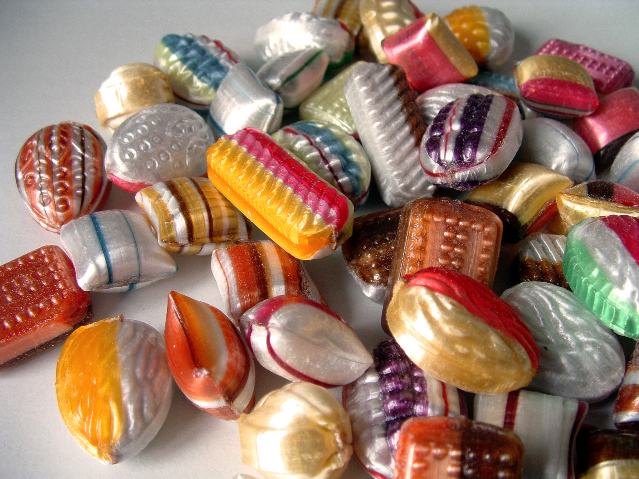 Colorful candy in Koblenz